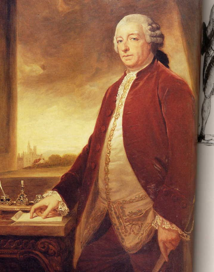 George Germain, 1st Viscount Sackville